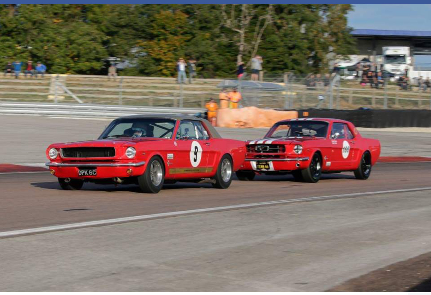 Craig Winning at Dijon